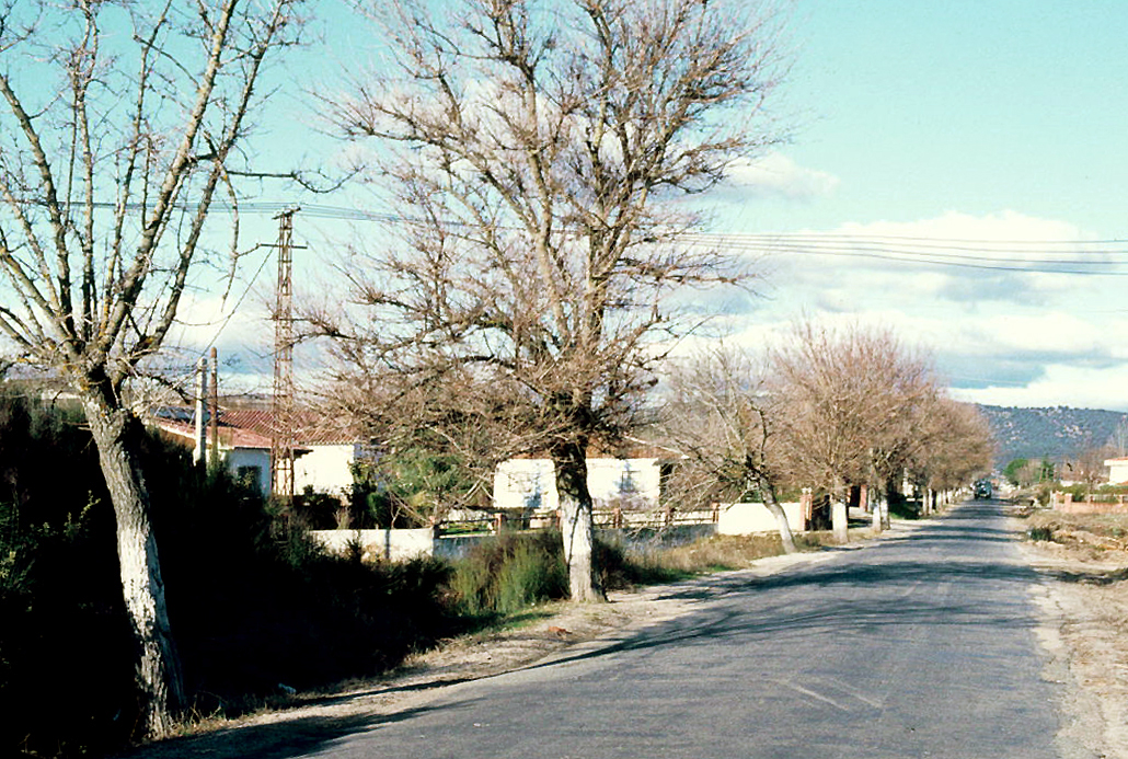 Through road [M-507] at Aldea del Fresno with the roadside trees before the widening of the roadway. Madrid, Spain